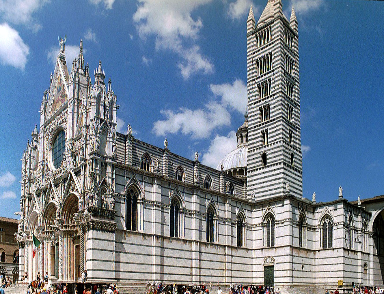 Cathedral in Siena, Italy. Photographed by Niels Bosboom in July 2002.